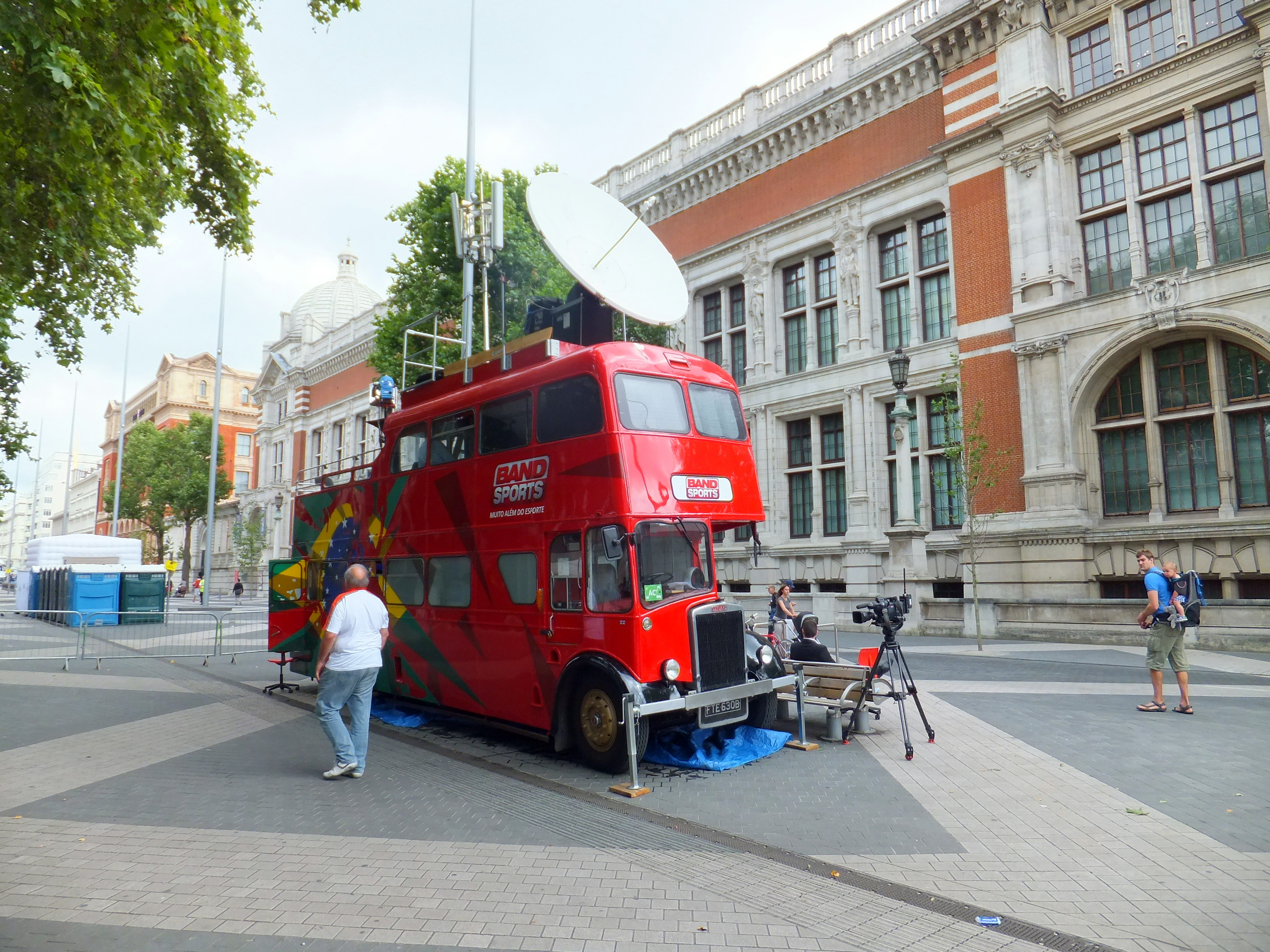 Converted Double Decker Bus in Exhibition Road South Kensington. TQ2679 :: Converted Double Decker Bus in Exhibition Road South Kensington, near to Kensington, Kensington And Chelsea, Great Britain